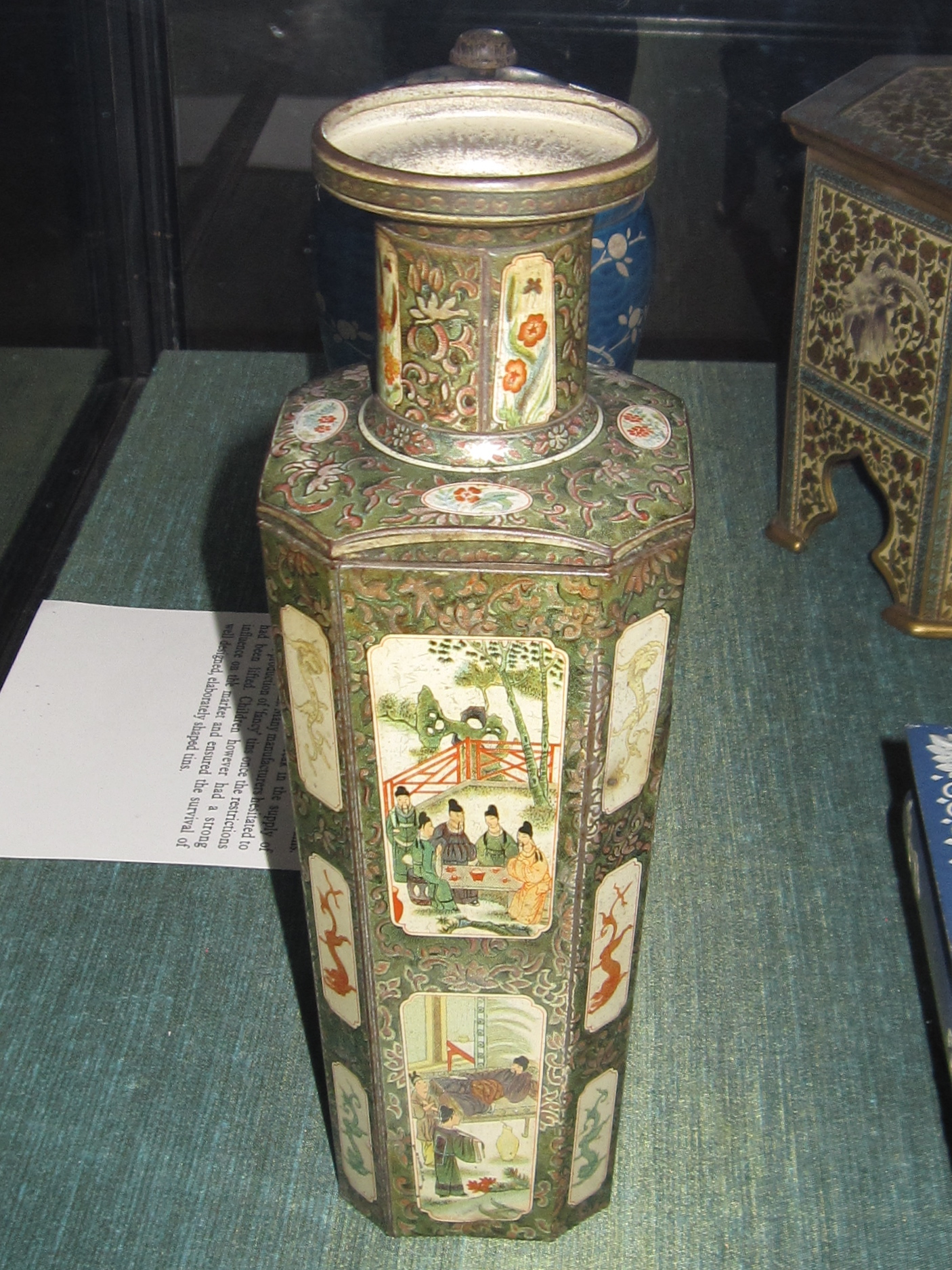 "Chinese Vase". The shape and decoration of this tin is based on a Chinese vase. Asian ceramics have been highly valued in Europe since the 16th century. This attractive biscuit tin provides an affordable alternative for the average home. Made by Huntley, Boorne & Stevens for Huntley & Palmers, 1928. Victoria and Albert Museum no. M.404-1983.